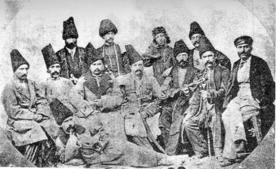 Azerbaijanian noblemen from Iravan (now Yerewan)